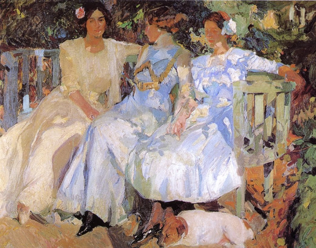 Portrait of Clotilde del Castillo and their daughters.